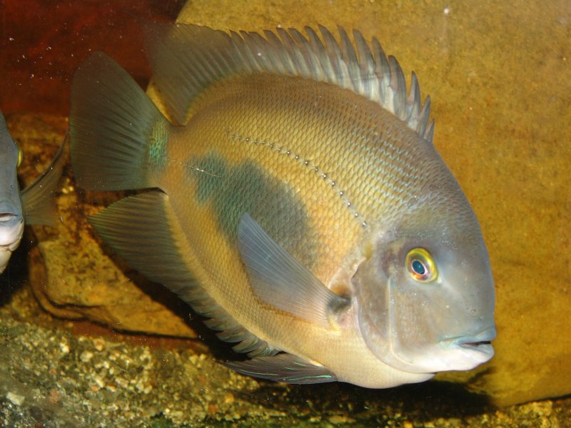 Uaru sp.